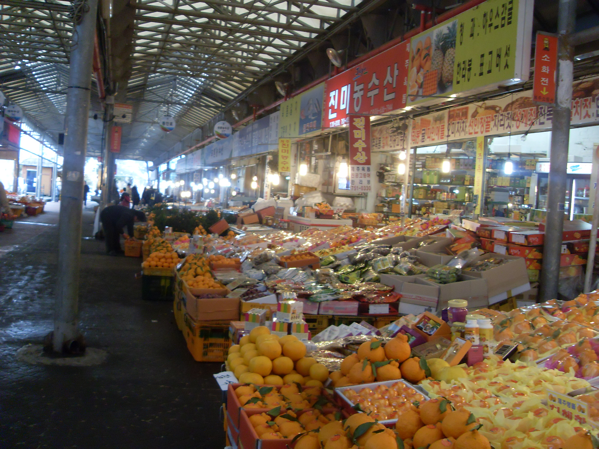 Jeju dongmun market